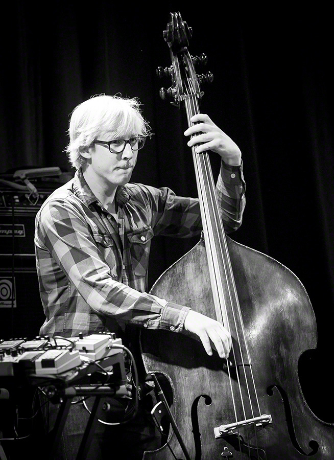 Fredrik Luhr Dietrichson performs with Ferdigsnakka: Broen og Moskus at the stage of Nasjonal Jazzscene Victoria. The concert was part of the Oslo Jazz Festival in Norway and took place on 15. August 2016. Lineup:Anja Lauvdal (keyboard)Fredrik Luhr Dietrichson (double bass)Hans Hulbækmo (drums)Heida Karine Johannesdottir (tuba)Lars Ove Fossheim (guitar)Lars Saabye Christensen (spoken words)Kjartan Fløgstad (spoken words)Vigdis Hjorth (spoken words)Geir Gulliksen (spoken words)Ingvild Schade (spoken words)